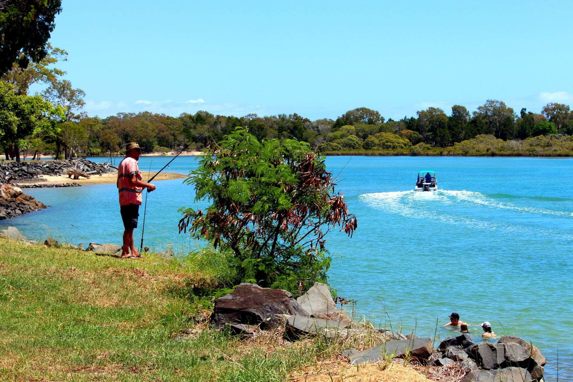 Toogoom Beach Queensland - Great Sandy Strait